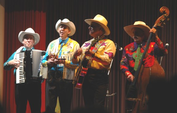 Riders in the Sky performing in Cumming, Georgia on January 6, 2007.